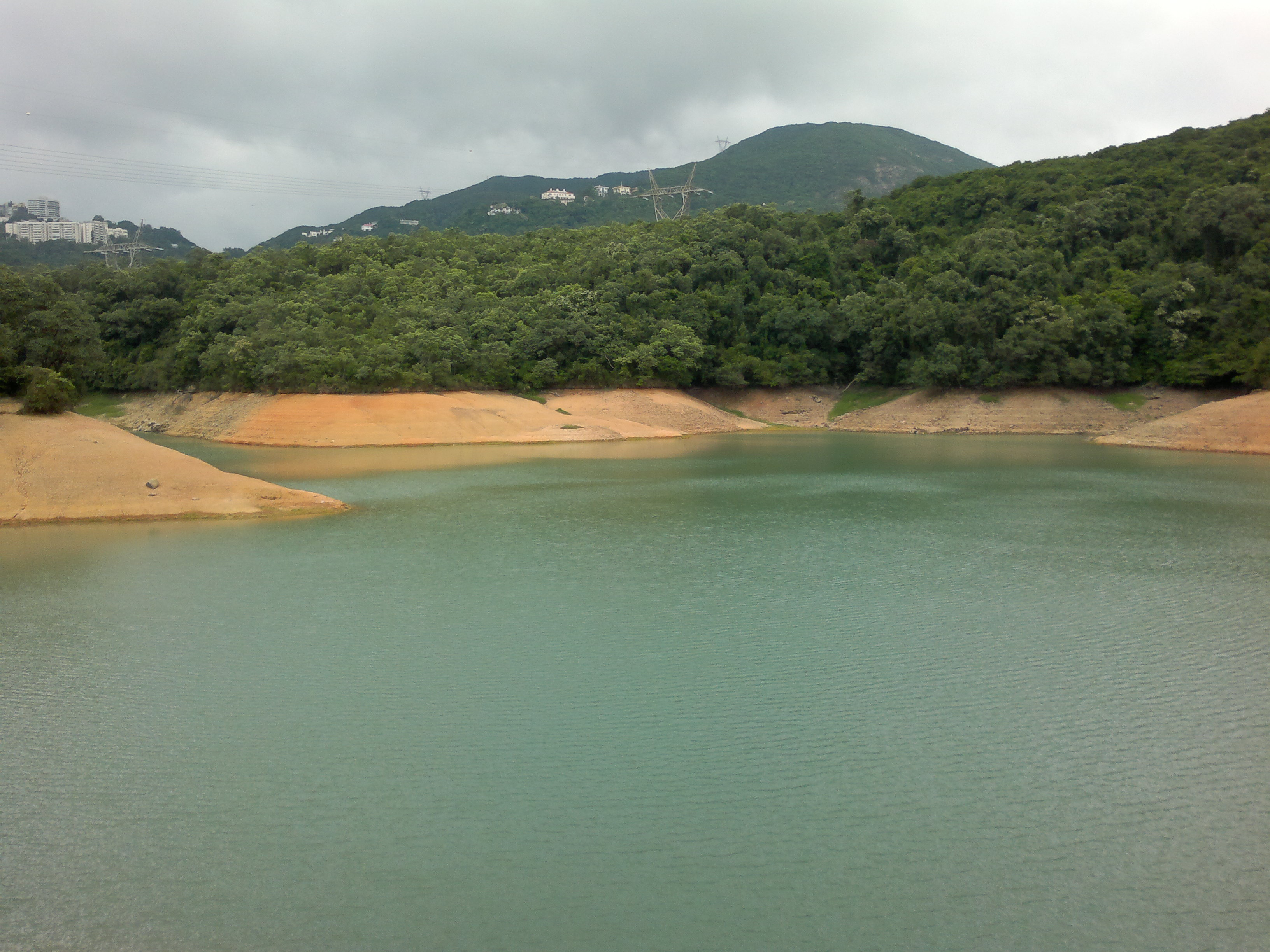 Aberdeen Lower Reservoir